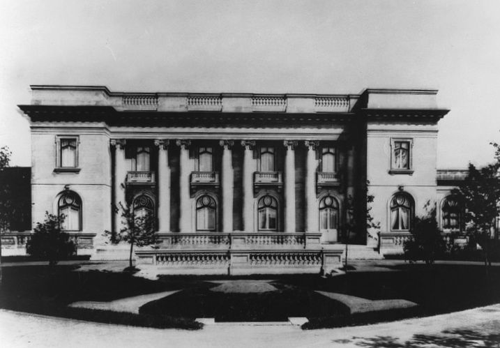 Chateau Dufresne, Sherbrooke Street, Montreal, QC, about 1918-22; About 1975, 20th century (gift); Silver salts on paper: resin coated - Gelatin silver process; 20 x 25 cm; Gift of M. Luc d'Iberville-Moreau; MP-1978.211.6; McCord Museum